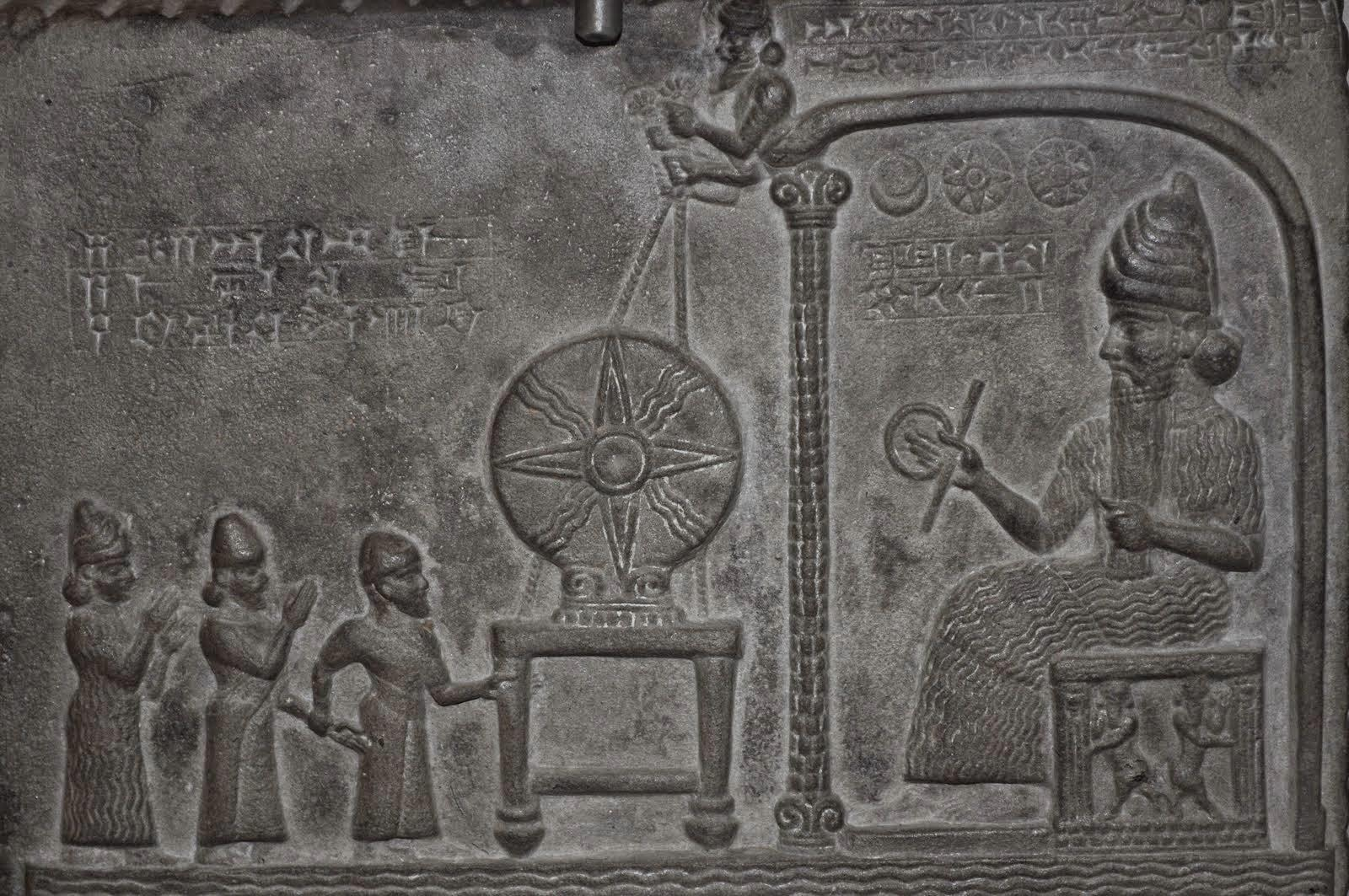 Tablet sculptured with a scene representing the worship of the Sun-god in the Temple of Sippar.